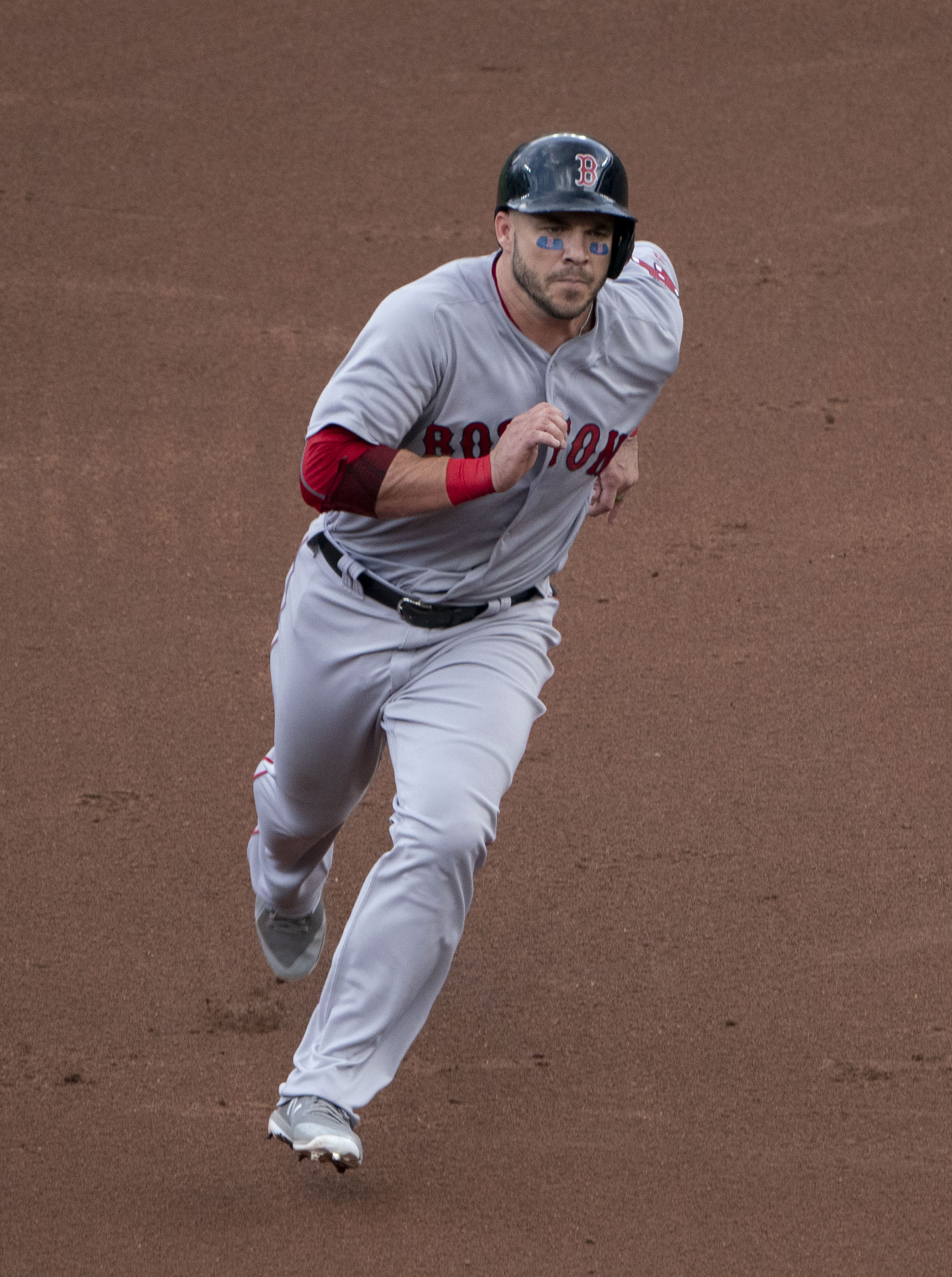 Steve Pearce of the Boston Red Sox on August 28, 2018 against the Orioles